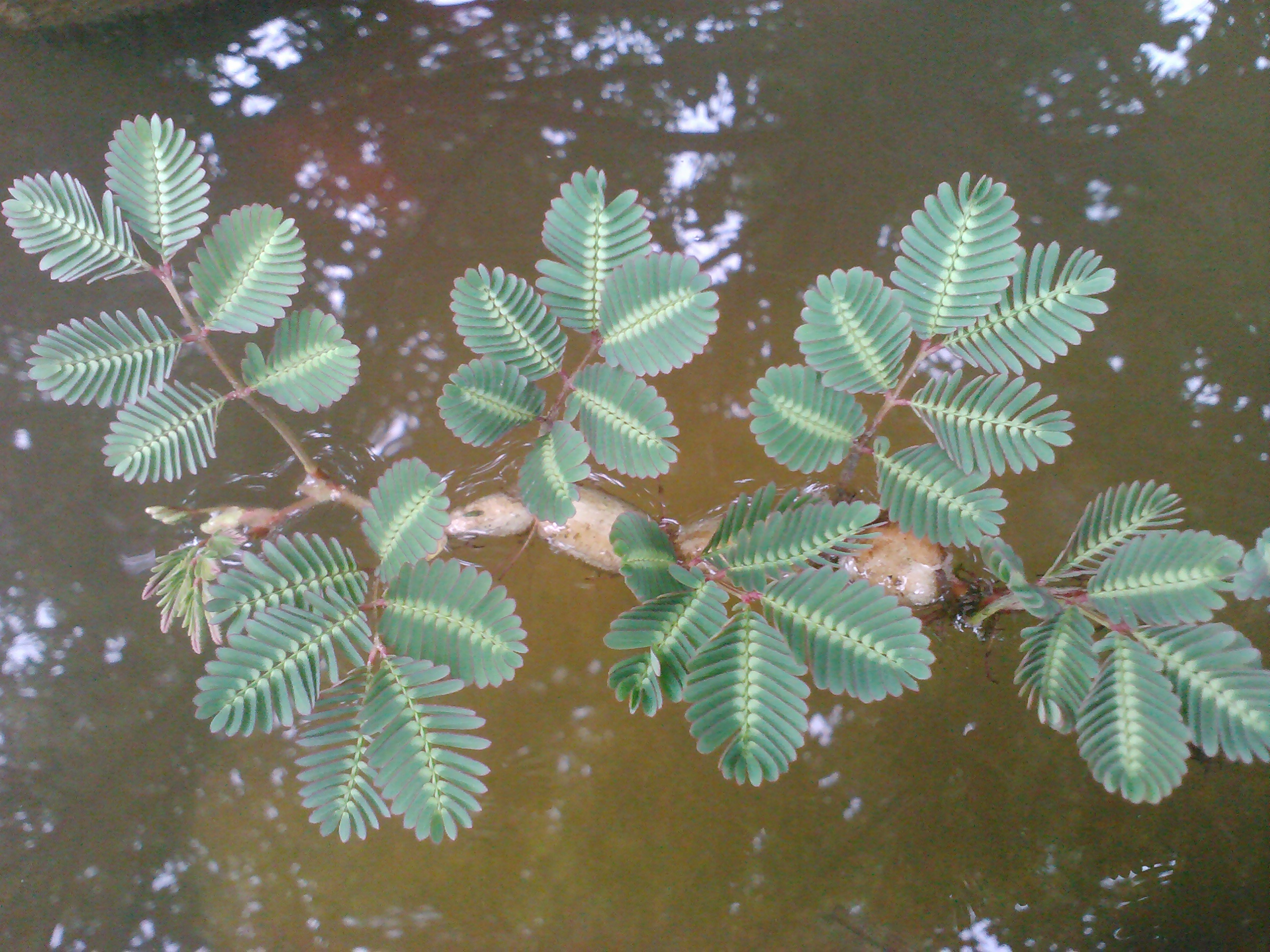 Here is a Neptunia Aquatica (Oleracea) I have growing in my pond. Cool plant closes its leaves when touched.